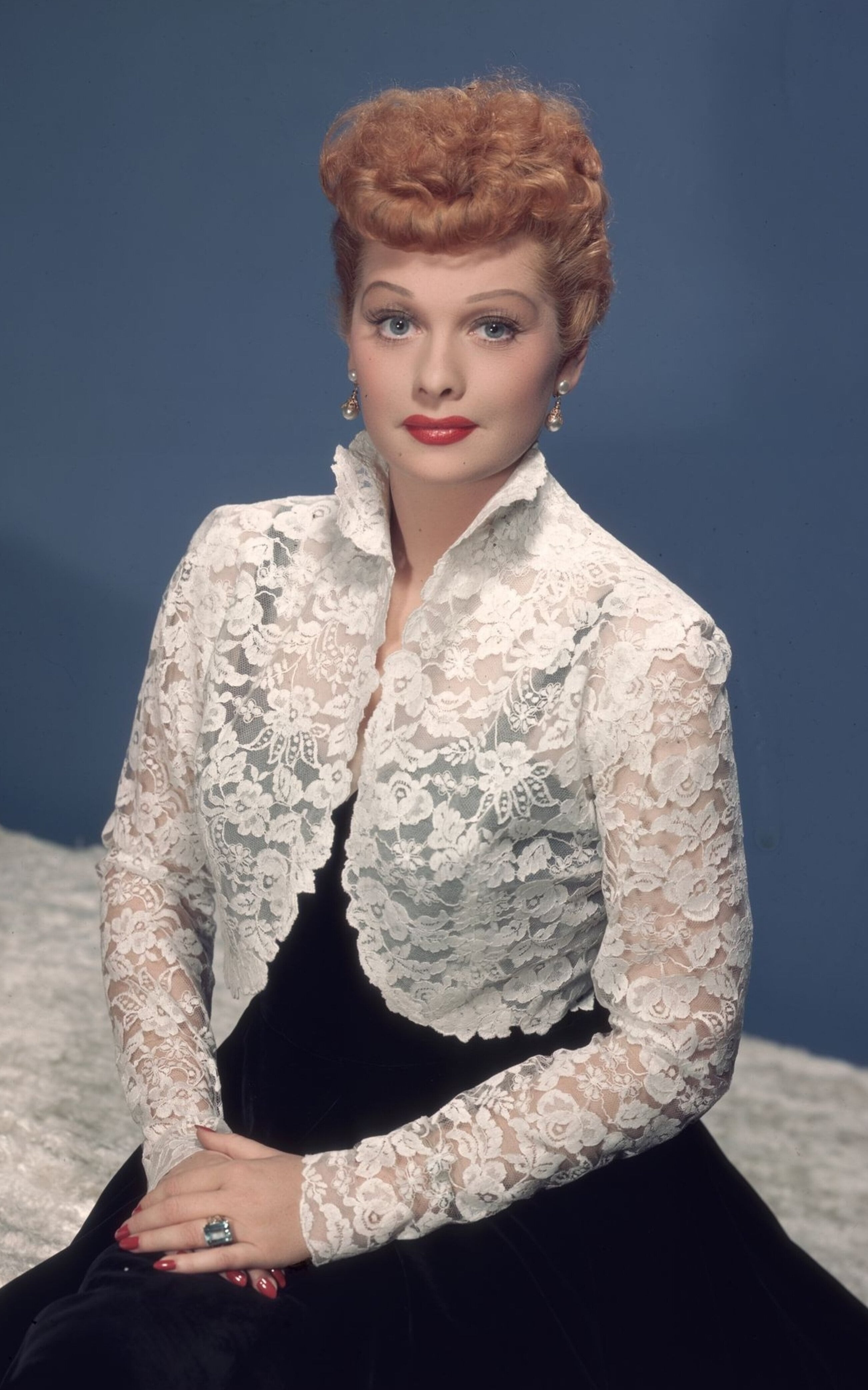 Lucille Ball in a 1950s film still.